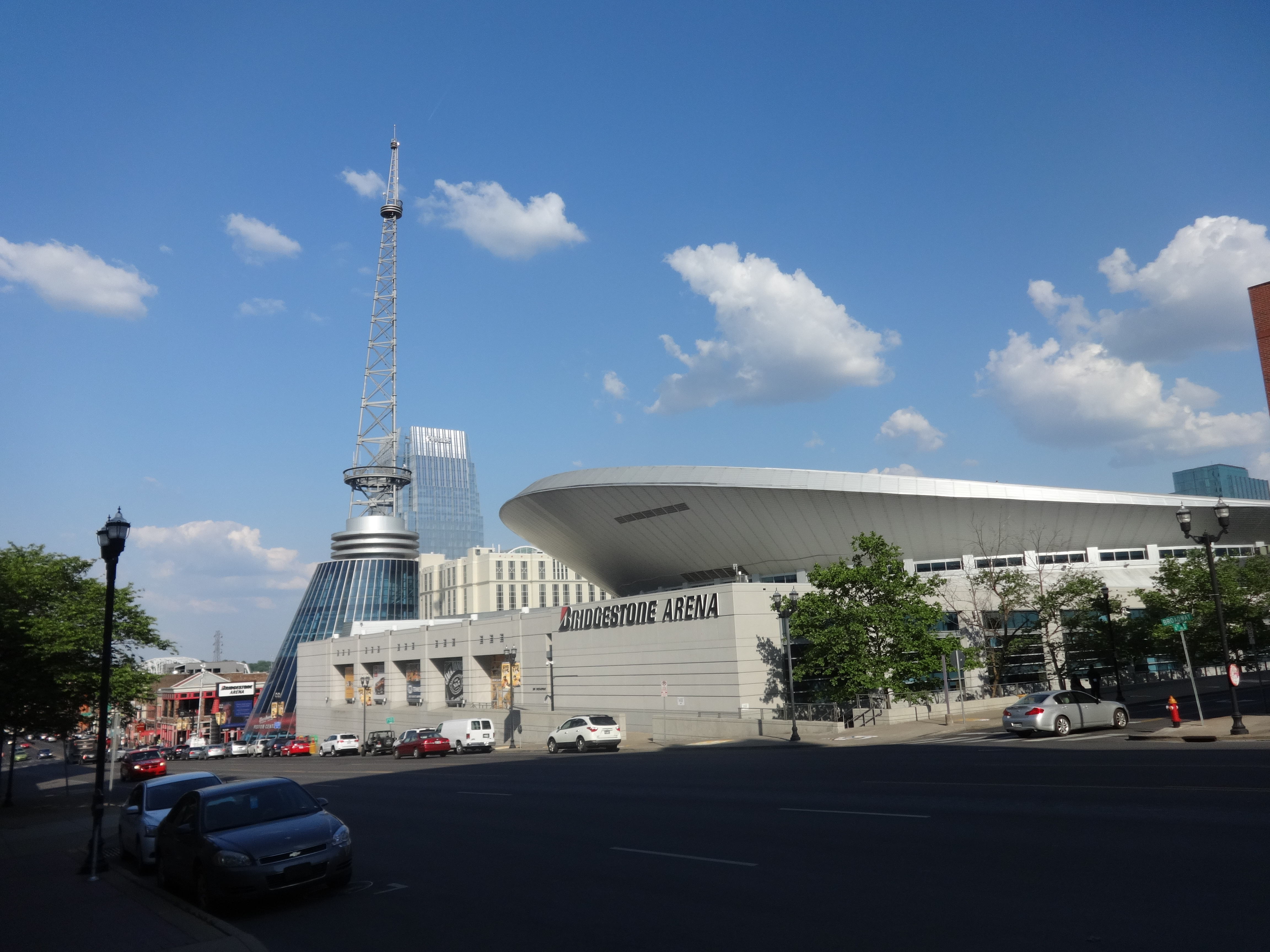 Bridgestone Arena, Nashville, Davidson County, Tennessee